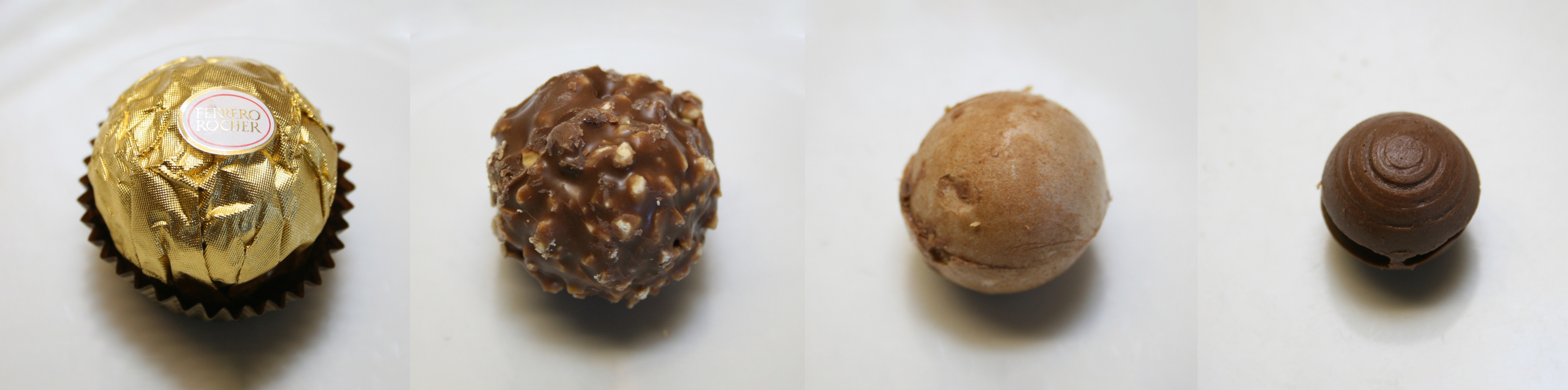 A Ferrero Rocher layer by layer, from foil packaging, through to its Gianduja centre. In the middle of the Gianduja sits a whole hazelnut. This entry is unfortunately lacking in that no nut picture has been included.